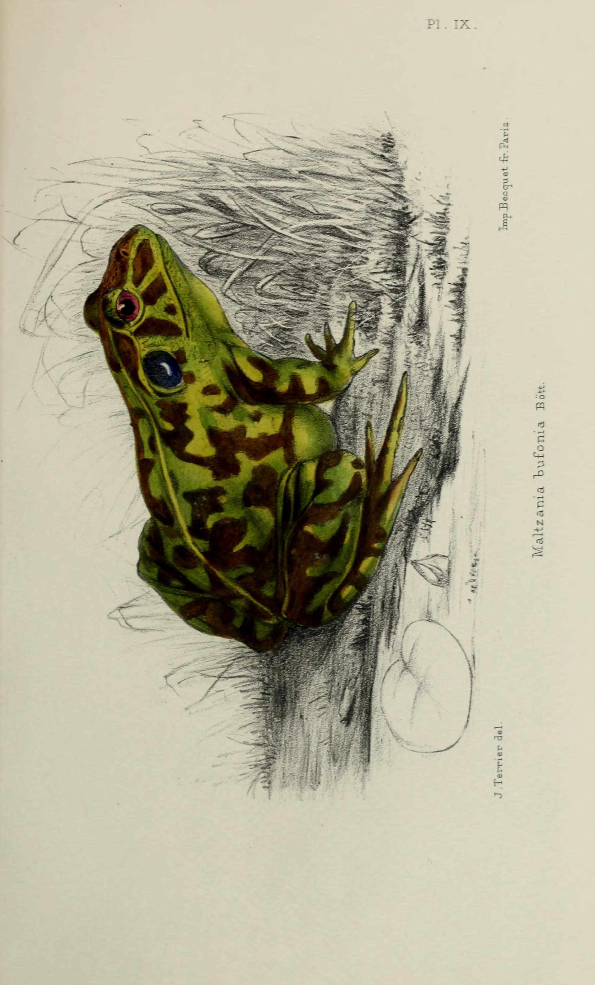 Title: Faune de la Sénégambie, vertébrés Year: 1883 (1880s) Authors: Rochebrune, Alphonse Trémeau de, 1834- Subjects: Zoology Vertebrates Mammals Reptiles Amphibians Fishes Publisher: Paris : Octave Douin Text Appearing Before Image: PLANCHE IX.Figure 1. — Maltzania bufonia, Bôtt., — grand, nat. Daprès un gpéctmvn recueilli au Jardin-Public de Dakar. PI . IX. Text Appearing After Image: PLANCHE X. Figure 1. — Hypogeophis Seraphini, Peters., — 1/2 g-raud. nat.» 2. — Tête du même, — grossie 3 fois.» 3. — Herpele squalostoma, Peters., — 1/2 grand, nat.» 4. — Téte du même, — grossie 3 fois. Pl. X.